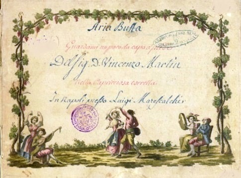 Cover of the score for "Guardami un poco da capo a piedi", aria from Martin y Soler's 1795 opera La capricciosa corretta, probably produced at the time of the opera's performance in Naples in 1798. The original is held in the Biblioteca del Conservatorio di musica S. Pietro a Majella in Naples